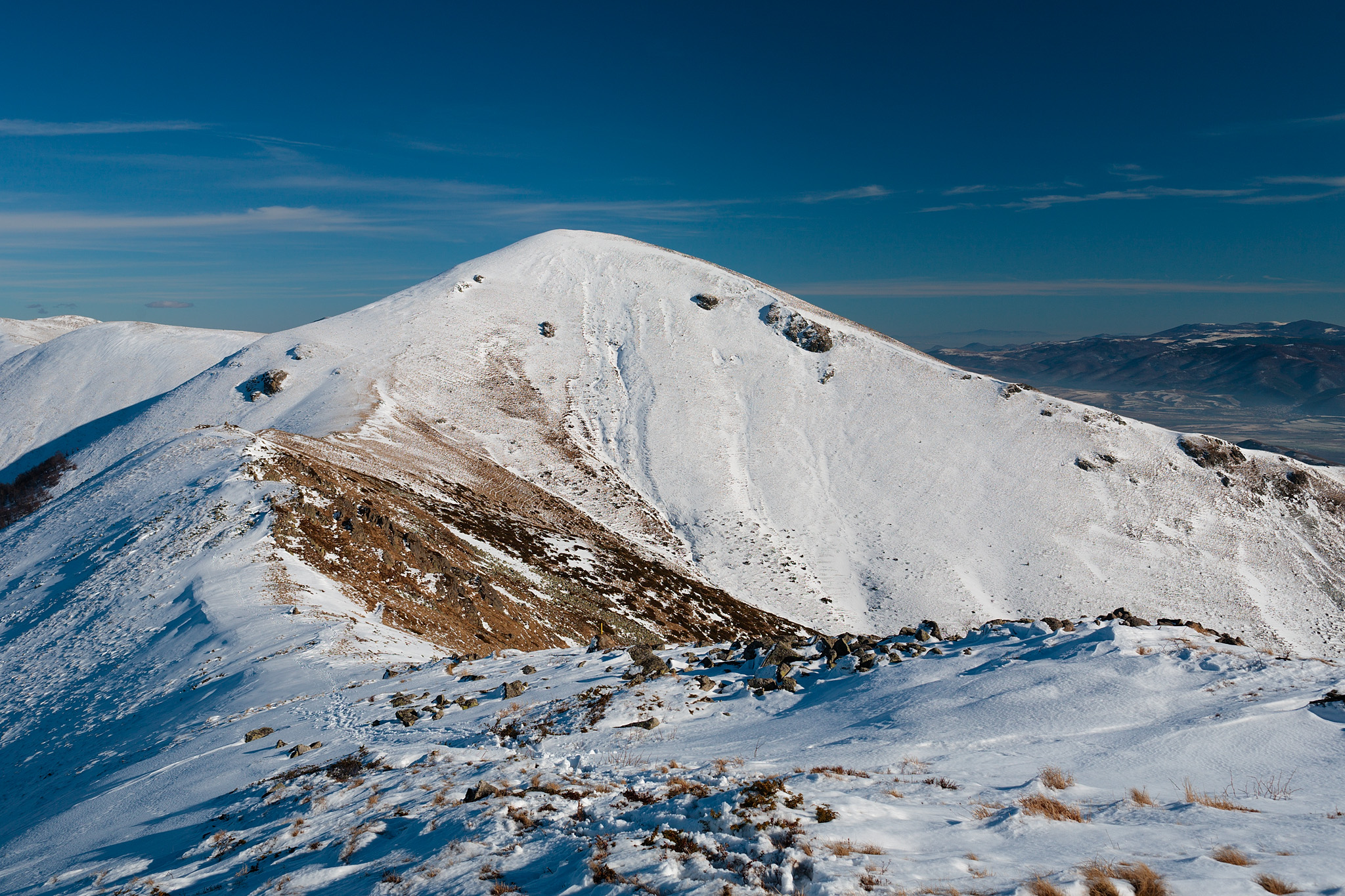 Svishti plaz peak in Stara planina (Balkan) mountains, Bulgaria